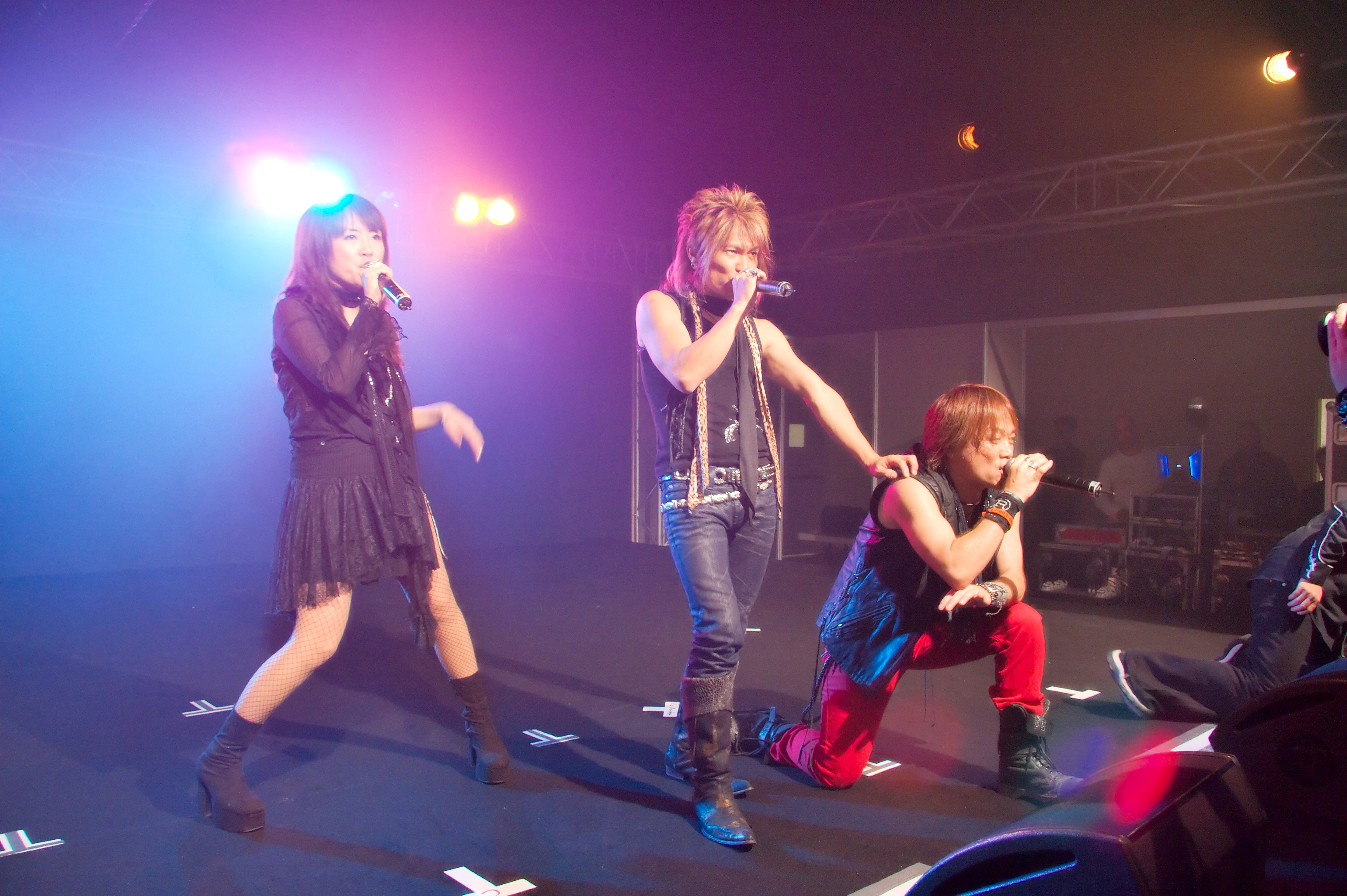 JAM Project live at Chibi Japan Expo 2008 (Paris, France).